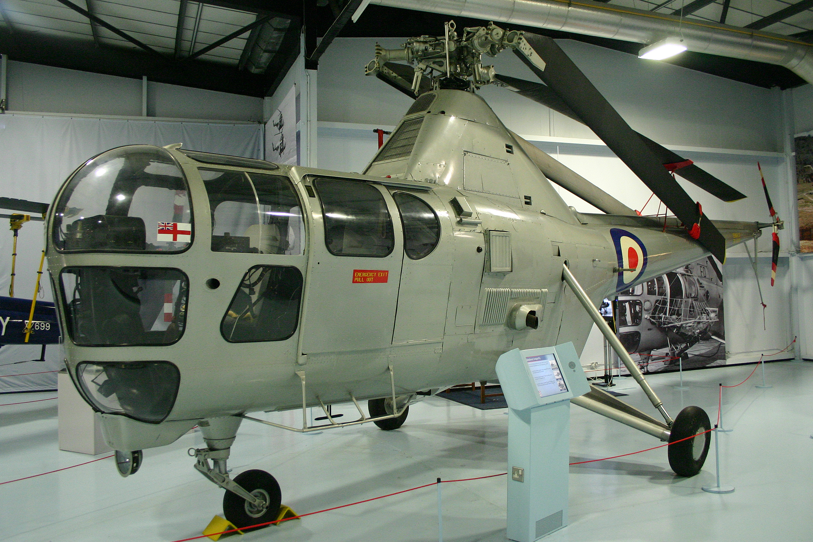 Displayed in the '100 Years of Naval Aviation' exhibition. FAA Museum Yeovilton. 15-6-2011